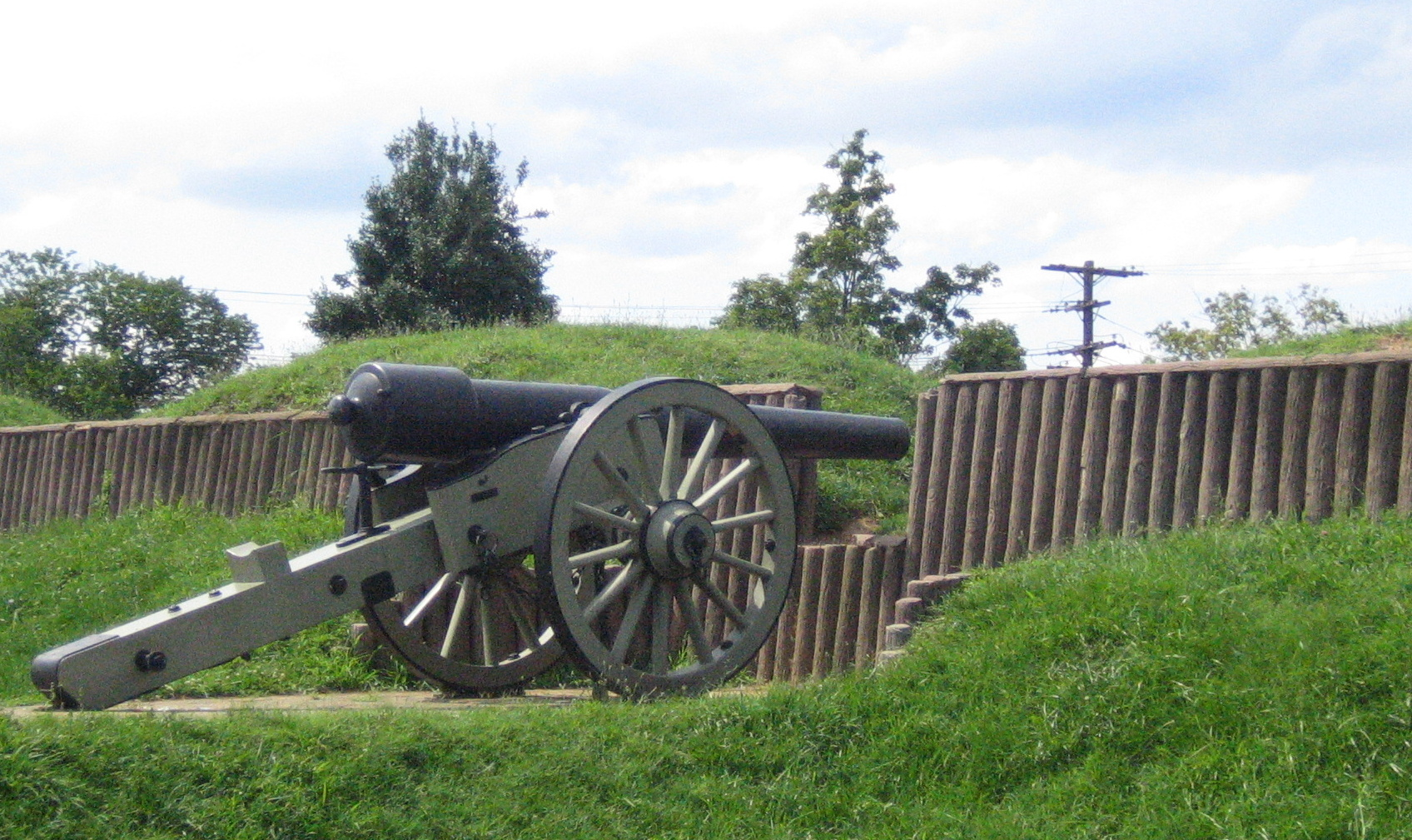 Ft. Stevens, Washington, D.C. with a replica 30-pdr Parrott rifle. Taken July 23, 2006 with Canon PowerShot SD300. Category:Images of Washington, D.C.